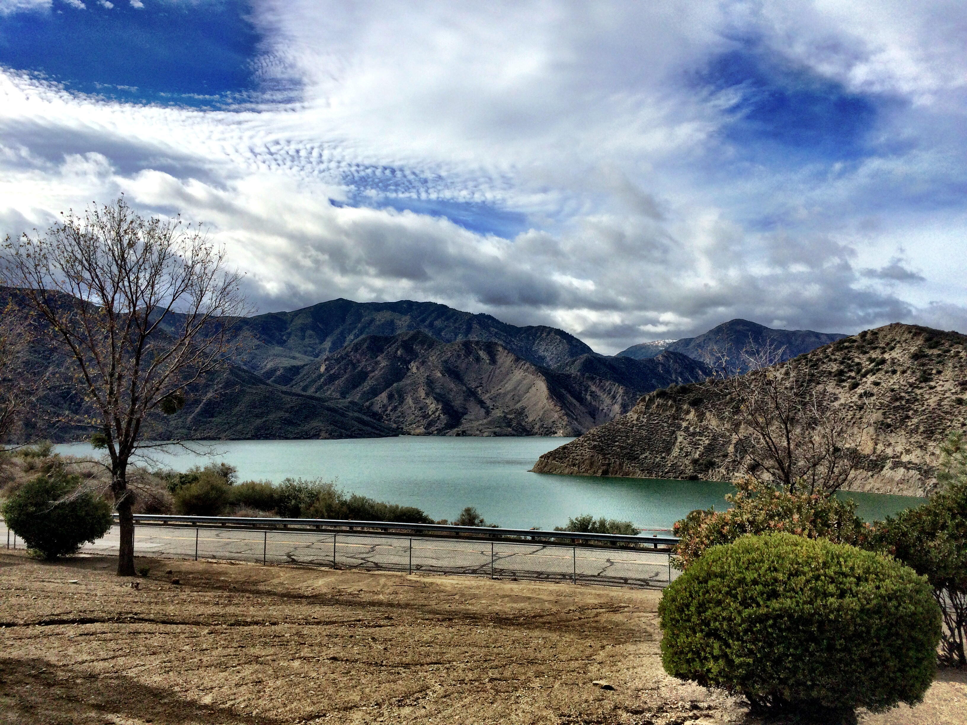 Pyramid Lake — a reservoir formed by Pyramid Dam across the Piru Creek channel, in the eastern San Emigdio Mountains near Castaic, in Los Angeles County, Southern California. It is a unit of the West Branch California Aqueduct, which is a part of the California State Water Project system infrastructure. Its water is fed by the system after being pumped up from the San Joaquin Valley and through the Tehachapi Mountains. The 386 foot tall earth and rock Pyramid Dam was built by the California Department of Water Resources.